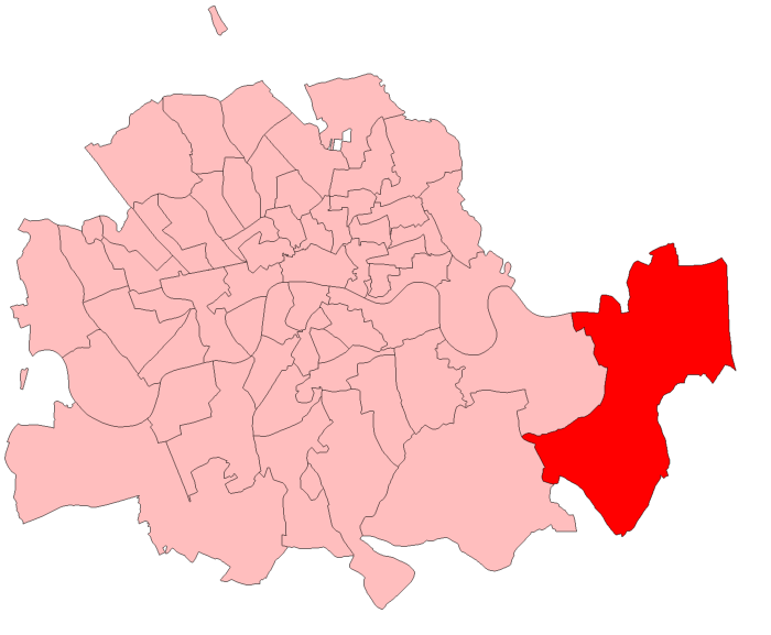 A map of Woolwich constituency within the Metropolitan Board of Works area, as it existed from 1885 to 1918.